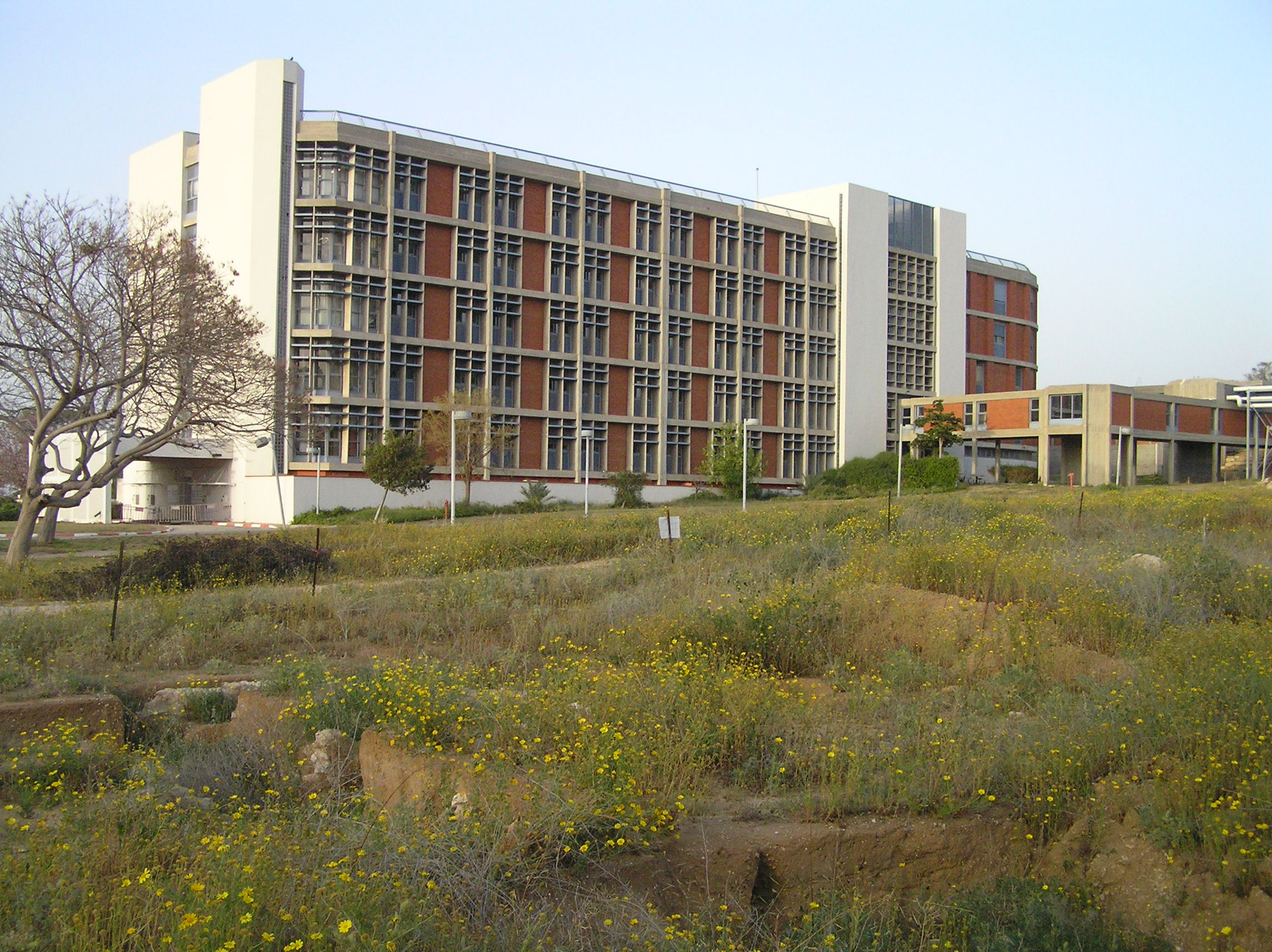 Barzilai Hospital, Ashkelon - hospitalization building and the ancient graves behind it